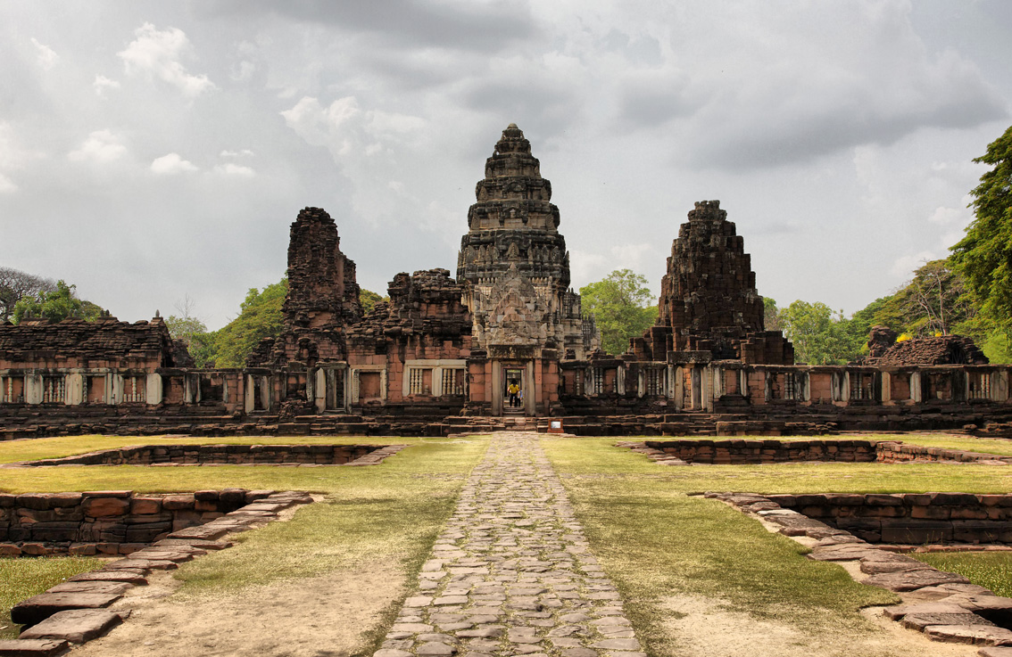 Phimai historical park, Nakhon Ratchasima, Thailand.